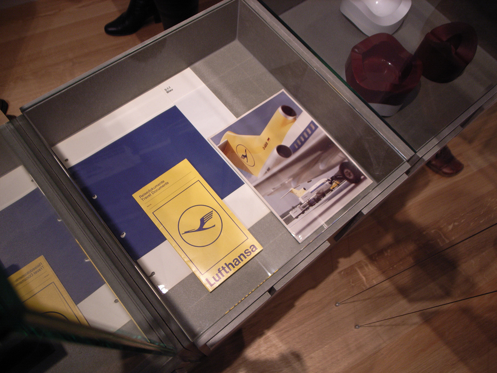 Corporative image design of Lufthansa at HfG Exhibition, Ulmer Museum